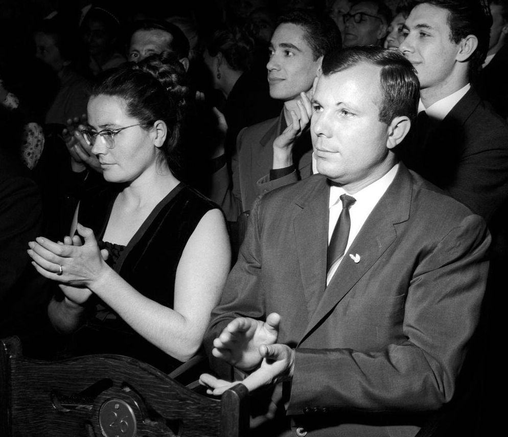 Yuri Gagarin and his wife Valentina Goryacheva are applauding the Company of the Teatro alla Scala who has just performed the 'Turandot'. Bolshoi Theatre, Moscow, September 1964.